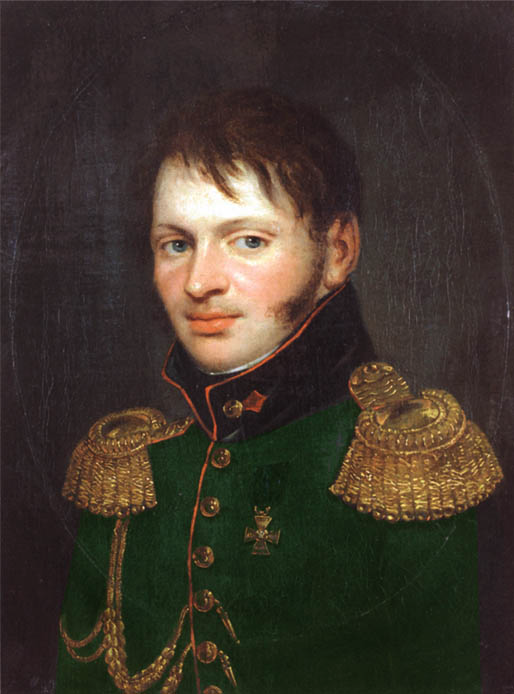 Józef Hurtig